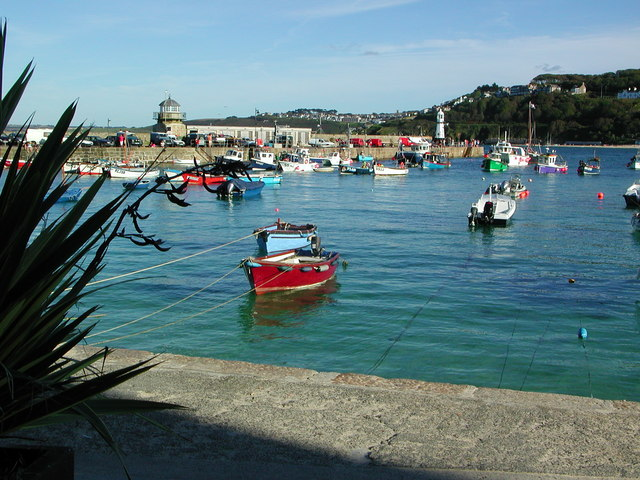 St Ives Harbour